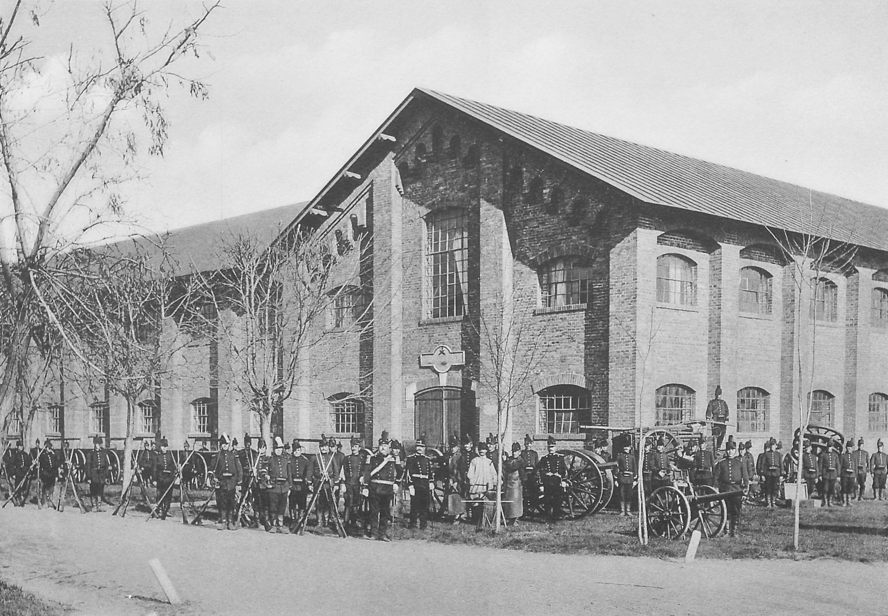 Arsenalul Armatei din Targoviste (later known as Arsenalul de Depozit).